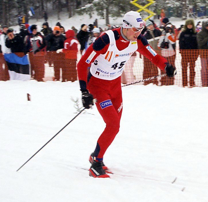 Norwegian Cross-Country skier Frode Estil (1972) in a World Cup race in Otepää 2007. Cropped from File:Frode Estil 2007.jpg